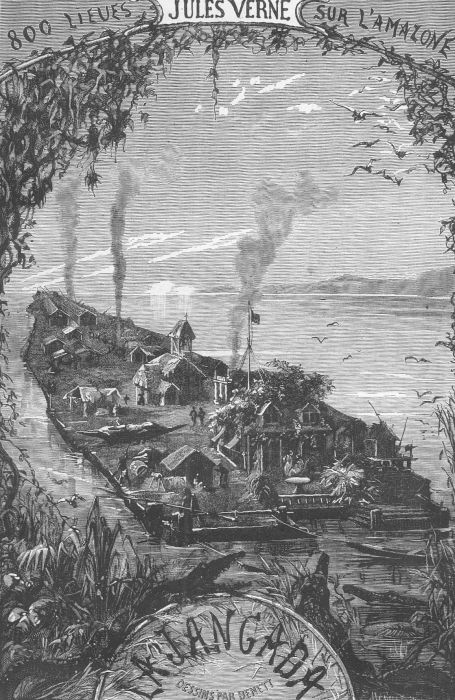 An illustration from Jules Verne's novel "Eight Hundred Leagues on the Amazon".